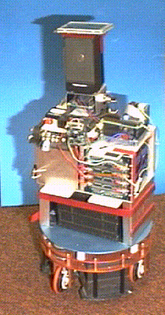 Polly - a tour guide robot from the AI Lab at MIT created by Ian horswill